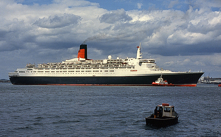 Red Funnel tug Chale turning the Queen Elizabeth 2 at Southampton. Scanned from a Fujichrome 35mm slide.